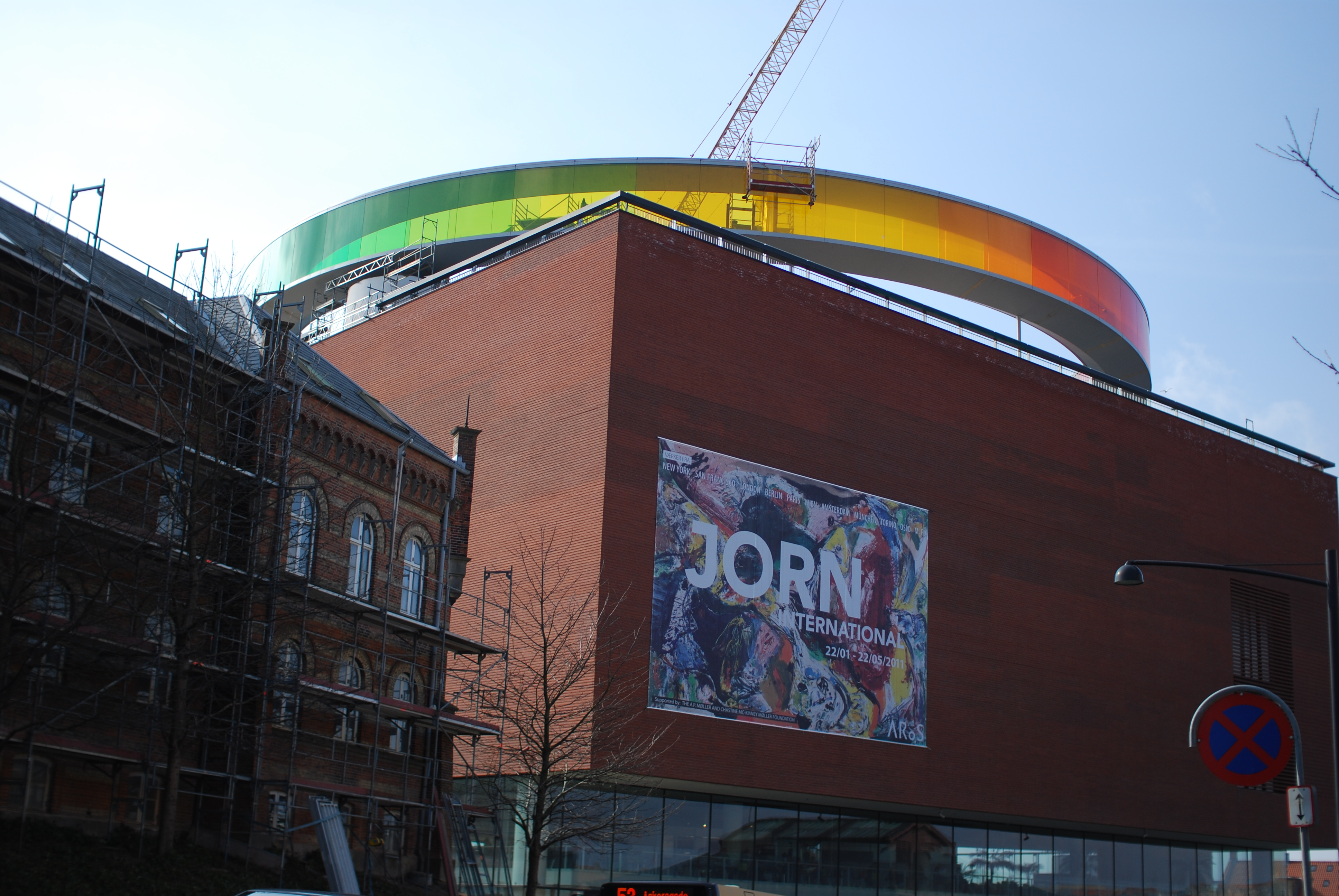 "your rainbow panorama" at Aros museum in Århus